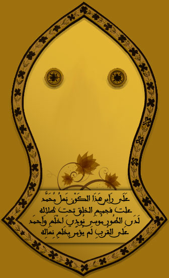 Prophet Mohammad's Sandal example drawing